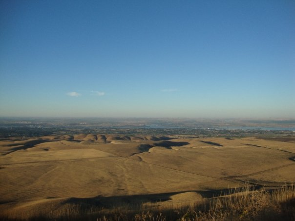 Kennewick, Washington and surrounding areas from the top of Jump off Joe.